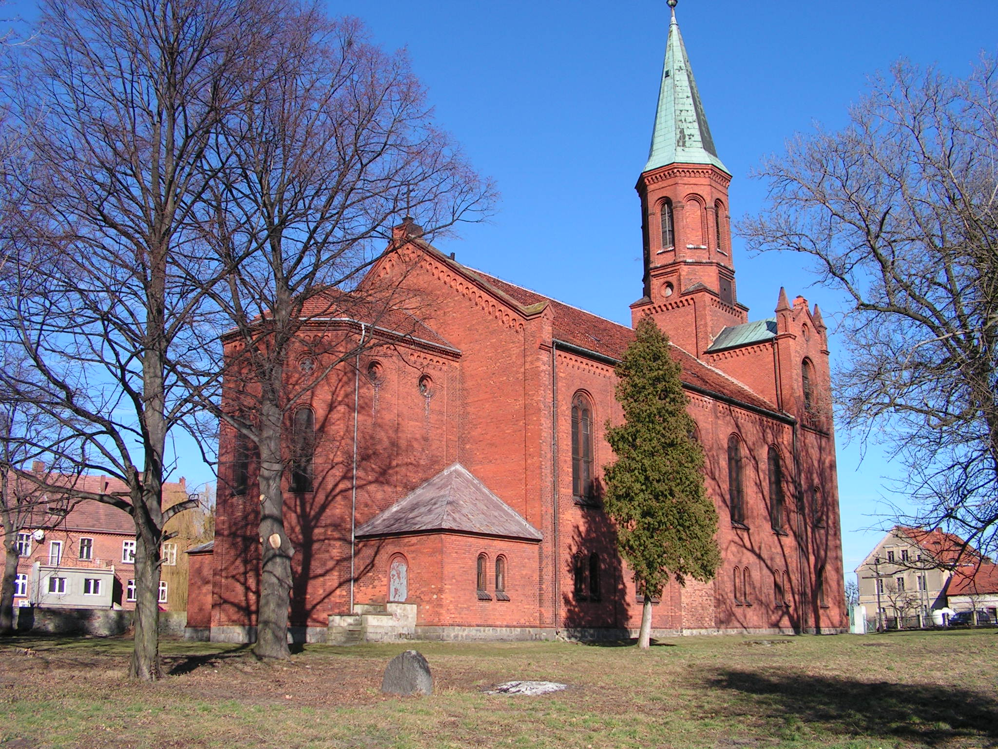 Sacred Heart church in Tuszyn, Poland